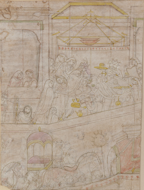 Wedding of Damayanti and Nala, 1775-1800, Pahari, Guler School, India. Ink and color on paper.